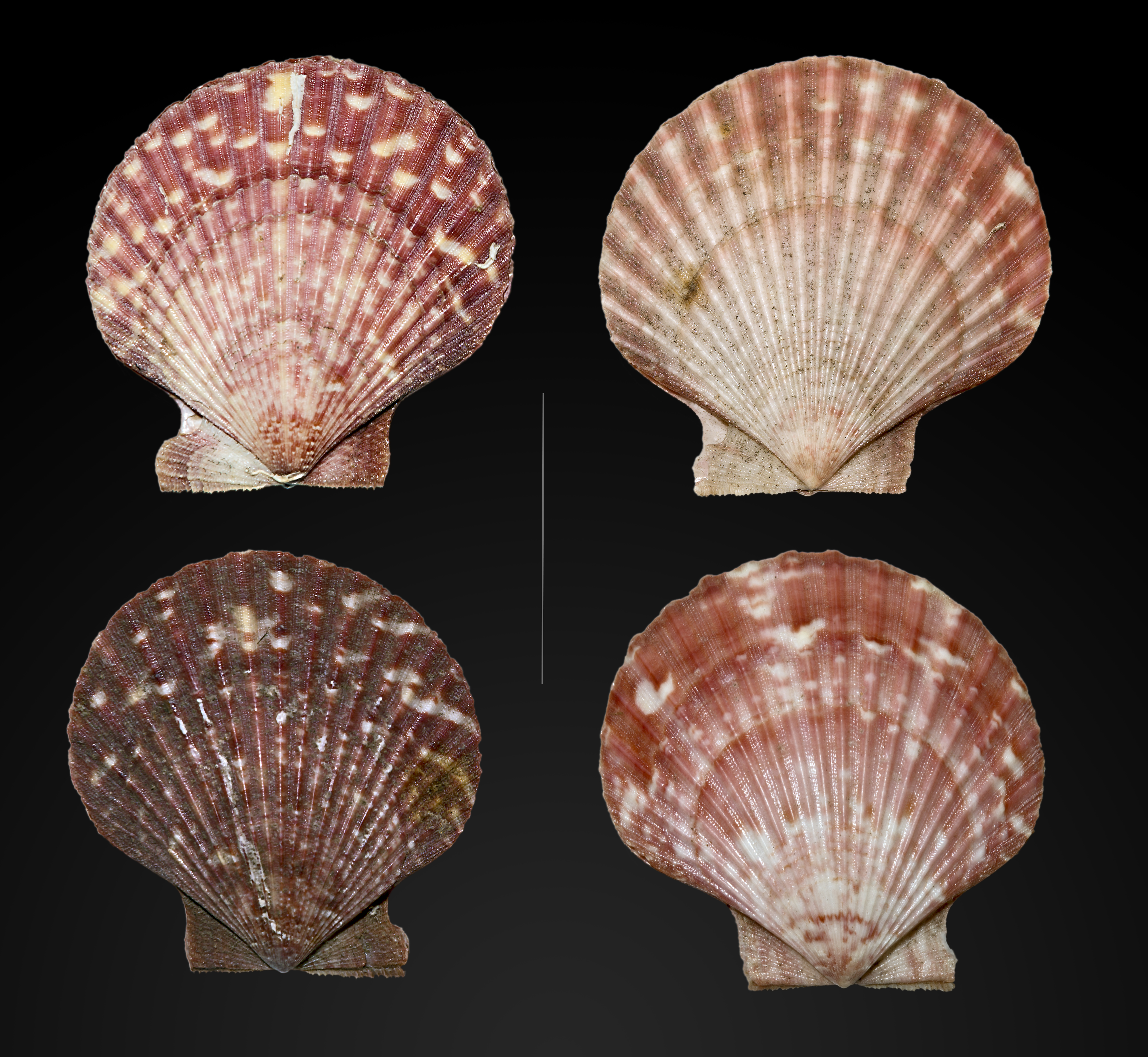 Queen scallop - the two valves of two specimens